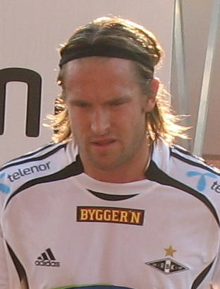 Norwegian footballer (soccer) Thorstein Helstad.